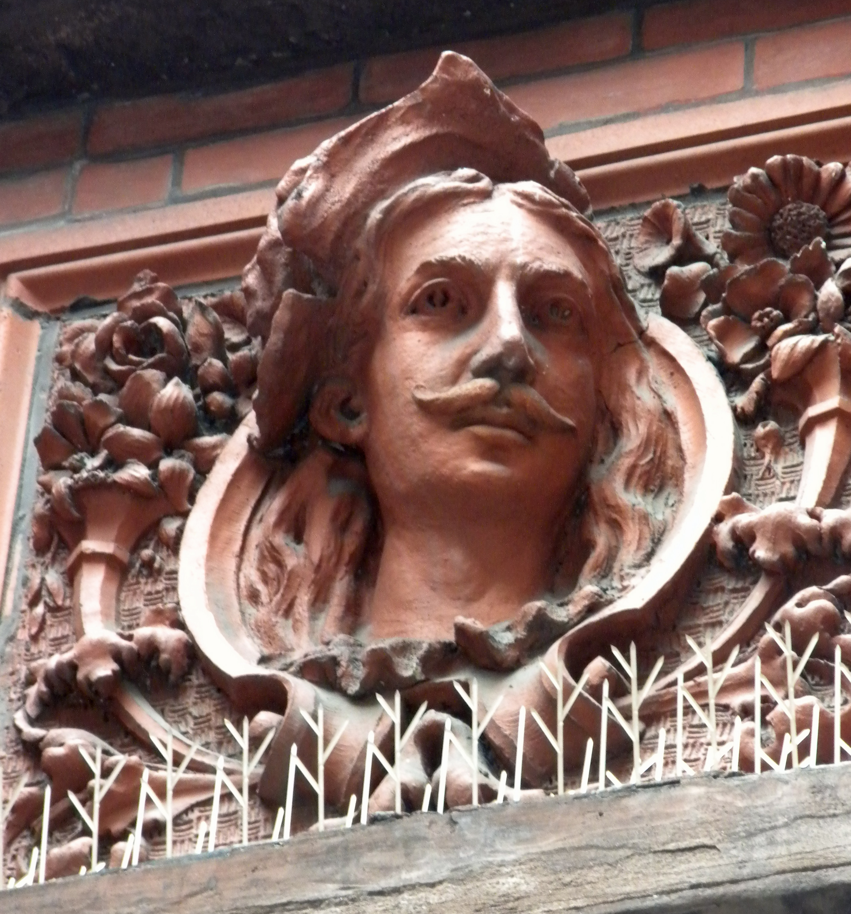 Detail from the Hartwell Building 14-16 E. Pearson Street, Chicago, Illinois (near North side). On NRHP since May 8, 1980. Now used as offices for the University across the street. 41°53′51″N 87°37′40″W